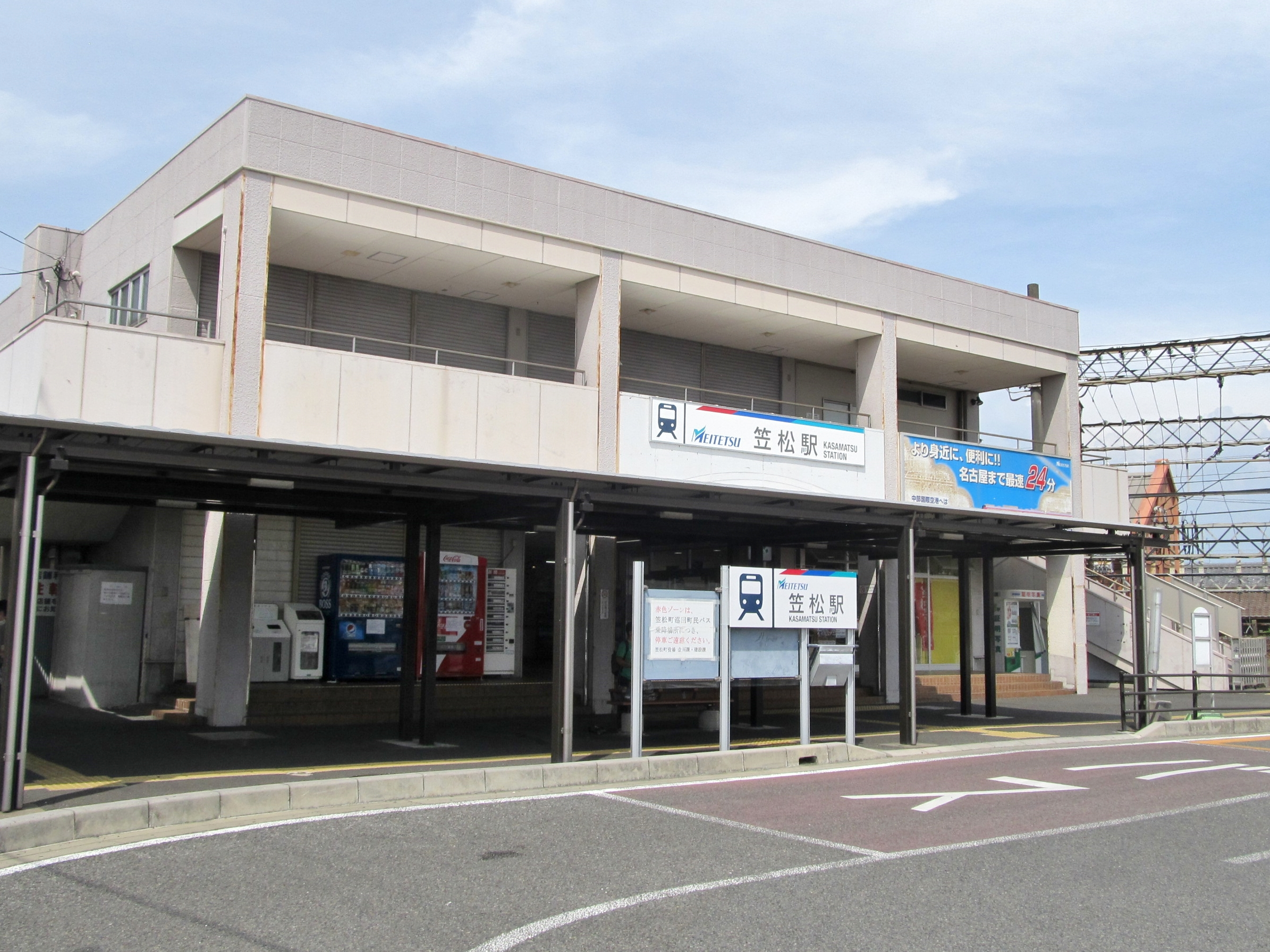 Nagoya Railroad Nagoya Main Line and Takehana Line Kasamatsu Station Building.